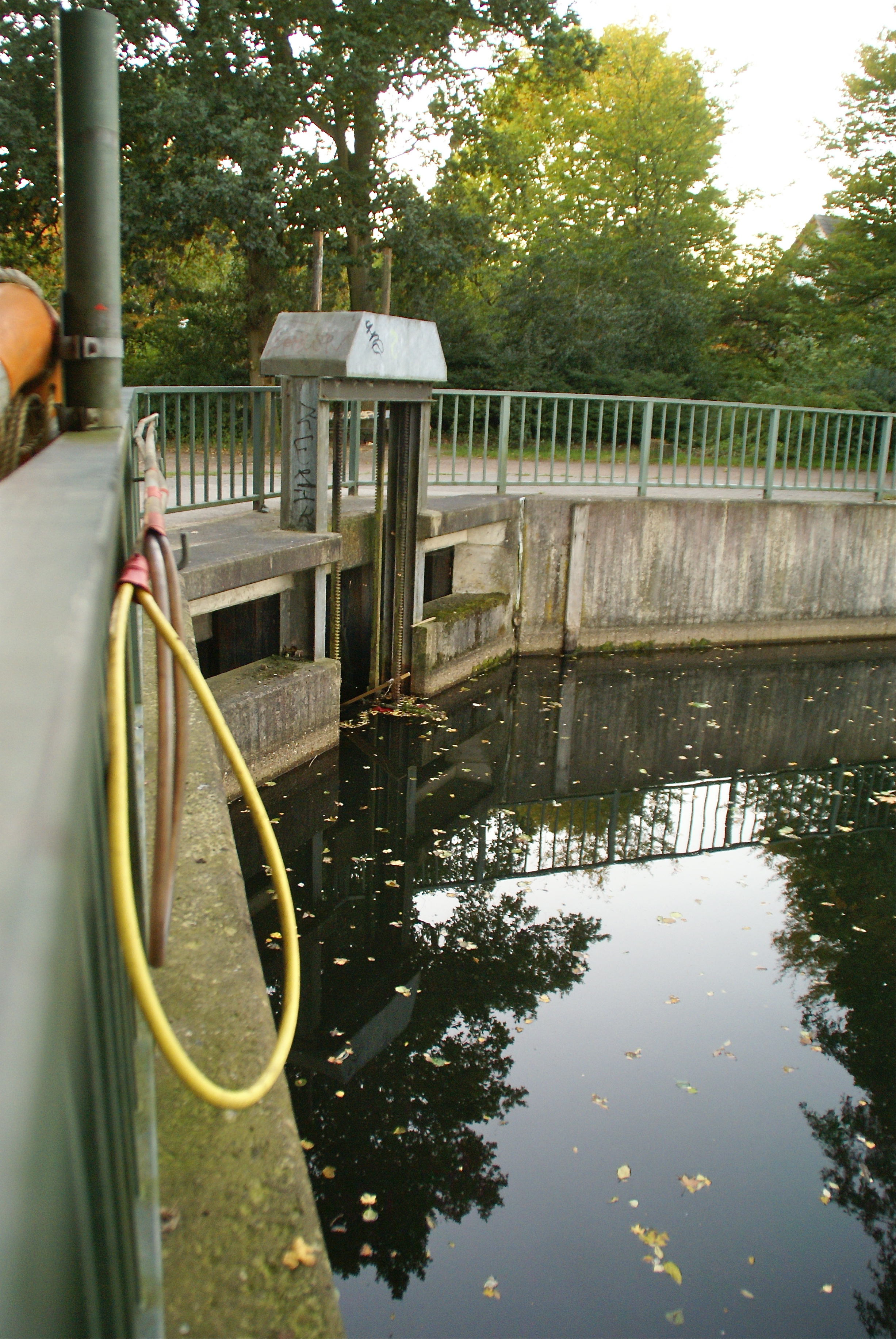 Hamburg (Germany): The lock of the Bramfelder See toward the river Seebek